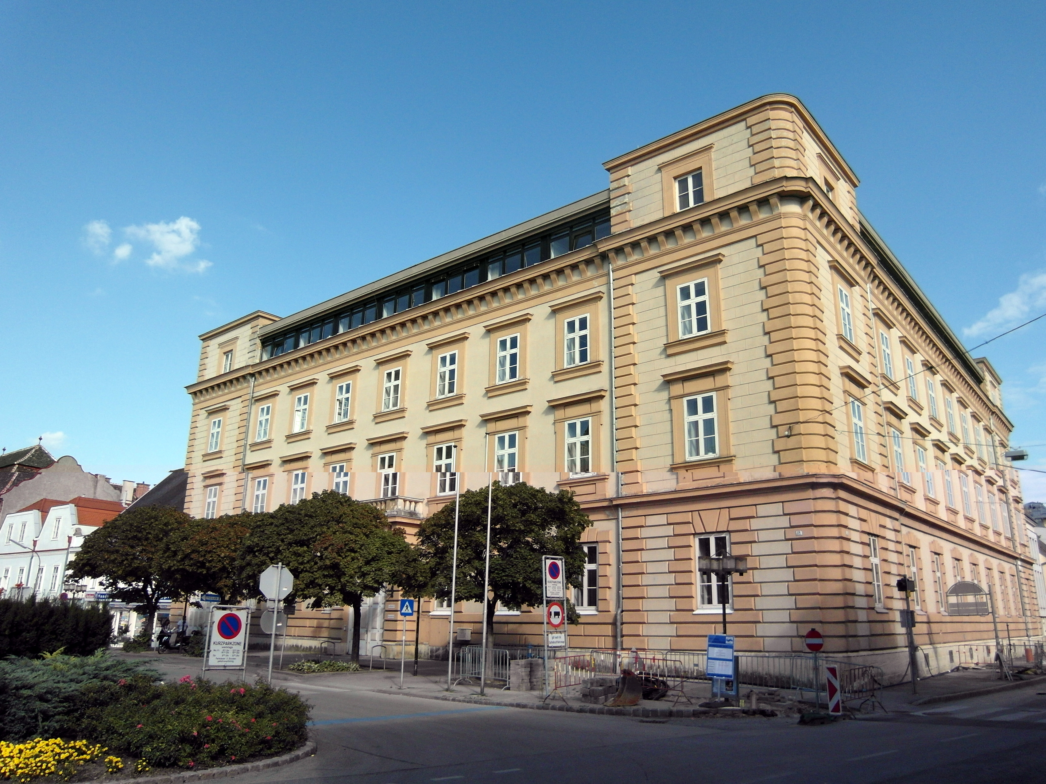 Korneuburg former courthouse